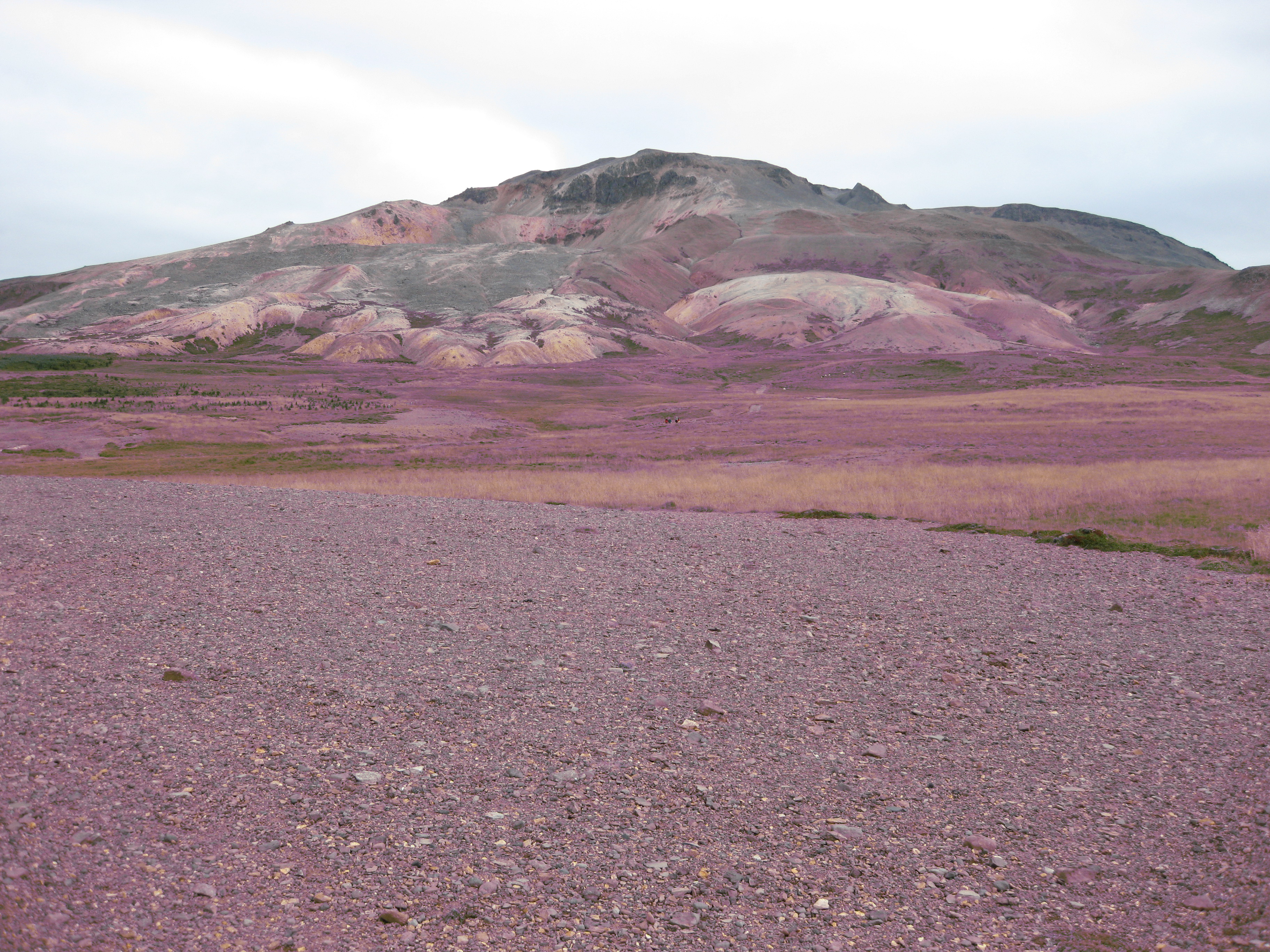 Drápuhlíðarfjall in Snæfellsnes , Iceland. Photo by Salvor in August 2008. The mountain is compose of rhyolite and is therefore light in colour. Famous for the slates people used to collect there.